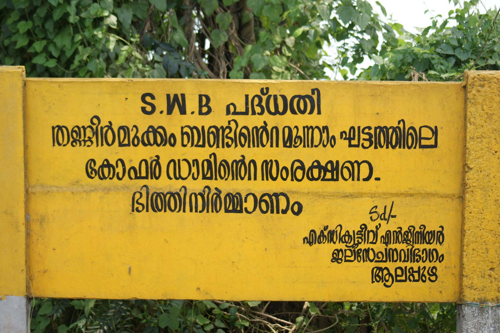 Thanneermukkom Bund Project 3rd Stage